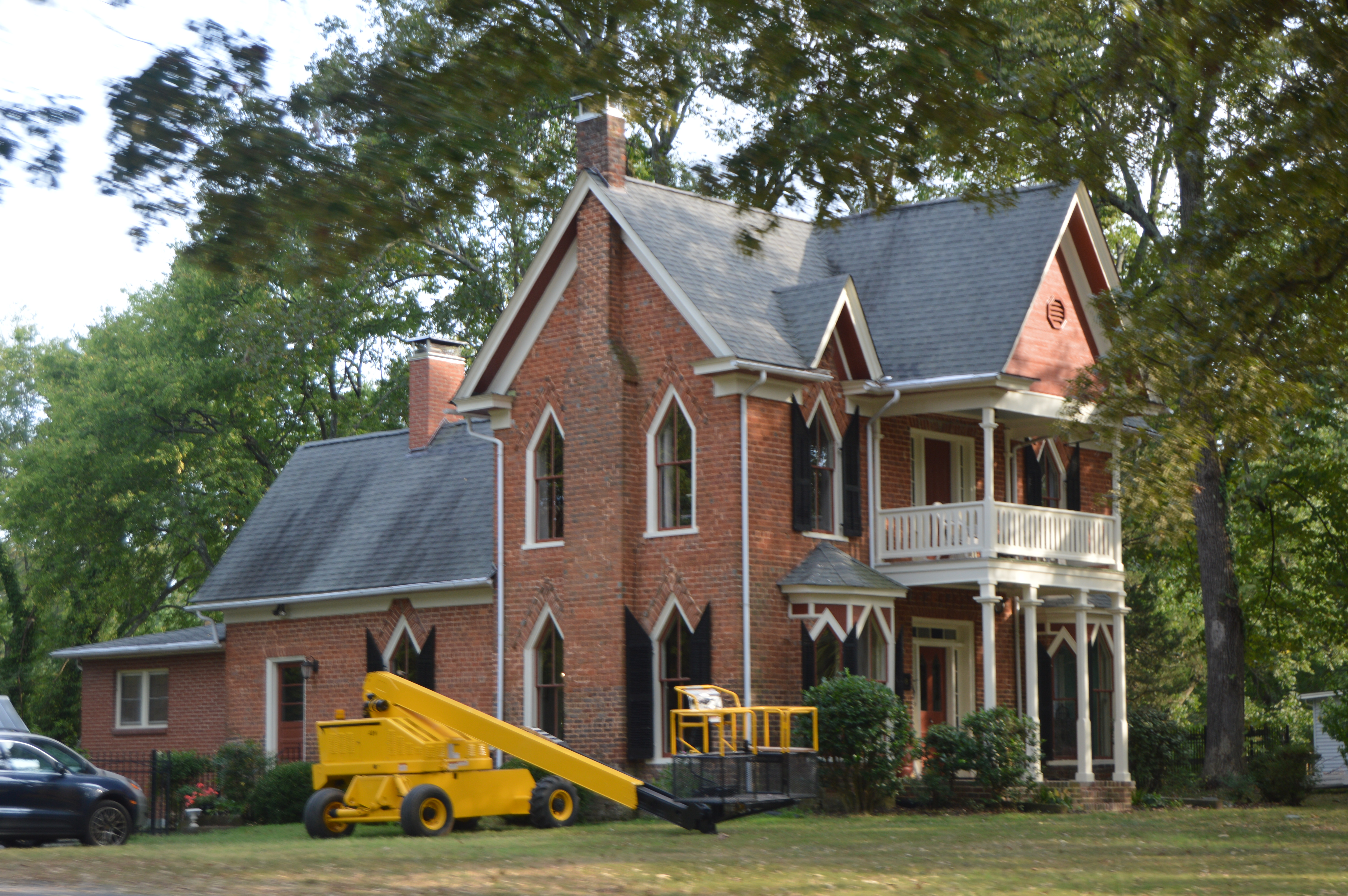 Front and northern side of the Abraham Nail House, located at 768 N. Main Street in Mocksville, North Carolina, United States. Built in 1880, it is part of the North Main Street Historic District, a historic district that is listed on the National Register of Historic Places.